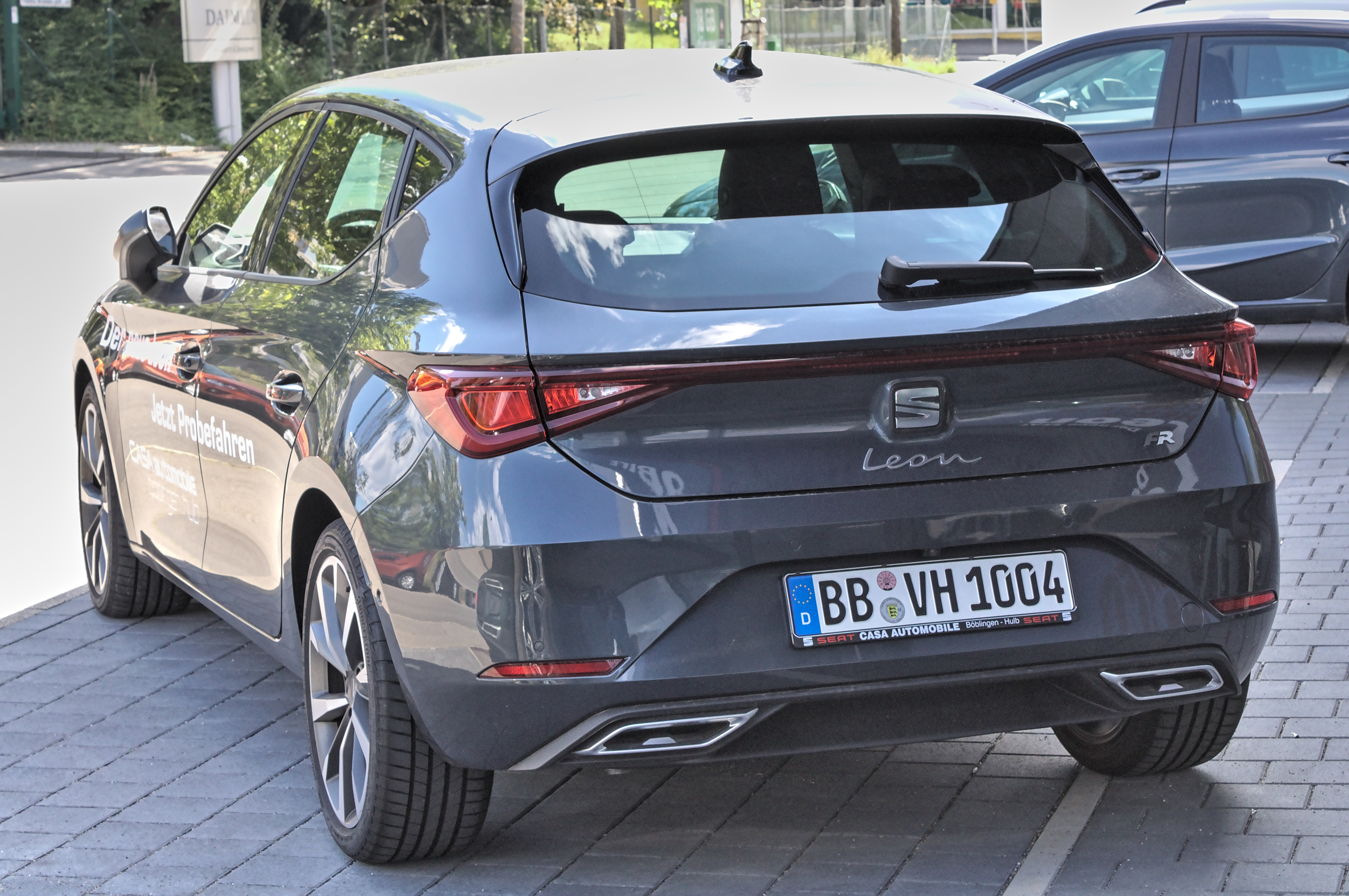 SEAT_Leon_Mk4 in Böblingen